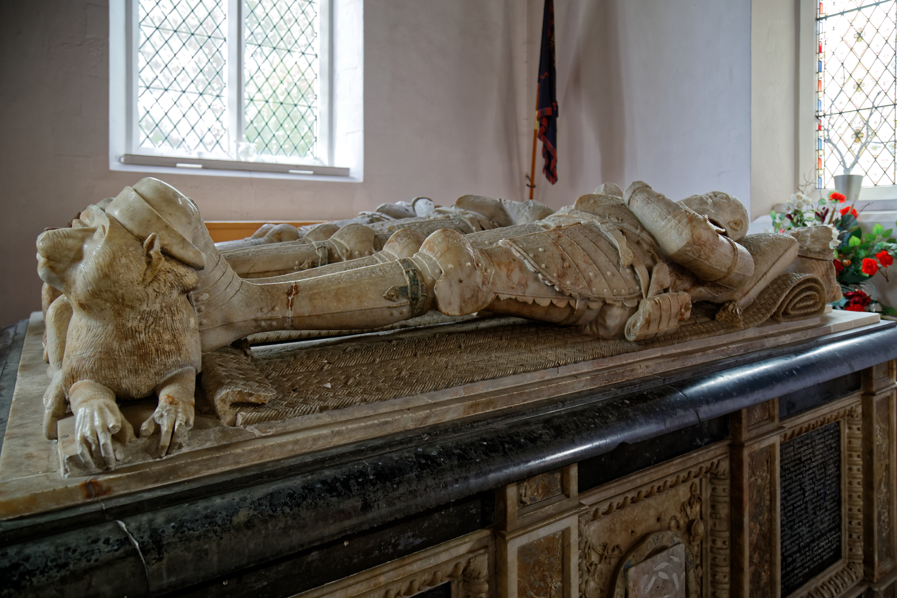 Originally built in the 16th century and rebuilt in the 19th, the Sussex Chapel running south off the chancel is for this 1587-89 tomb of the first three Earls of Sussex: Robert, Henry and Thomas (d.1542, 1567 and 1583), built by Richard Stevens of Southwark, in the Grade I listed 11th- to 15th-century Parish Church of St Andrew's, in Boreham village, Essex, England.Camera: Canon EOS 6D with Canon EF 24-105mm F4L IS USM lens.Software: RAW file lens-corrected, optimized and converted with DxO OpticsPro 11 Elite, and further optimized with Adobe Photoshop CS2.